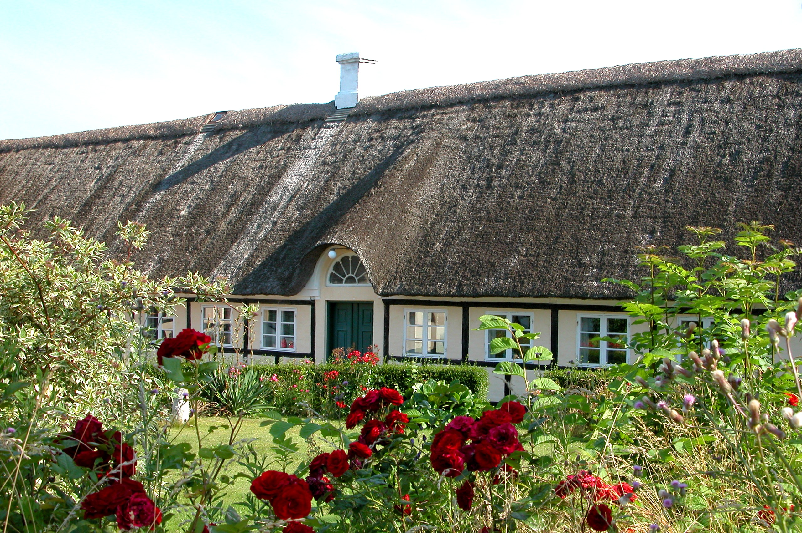 Old house in Leby, Ærø, Denmark